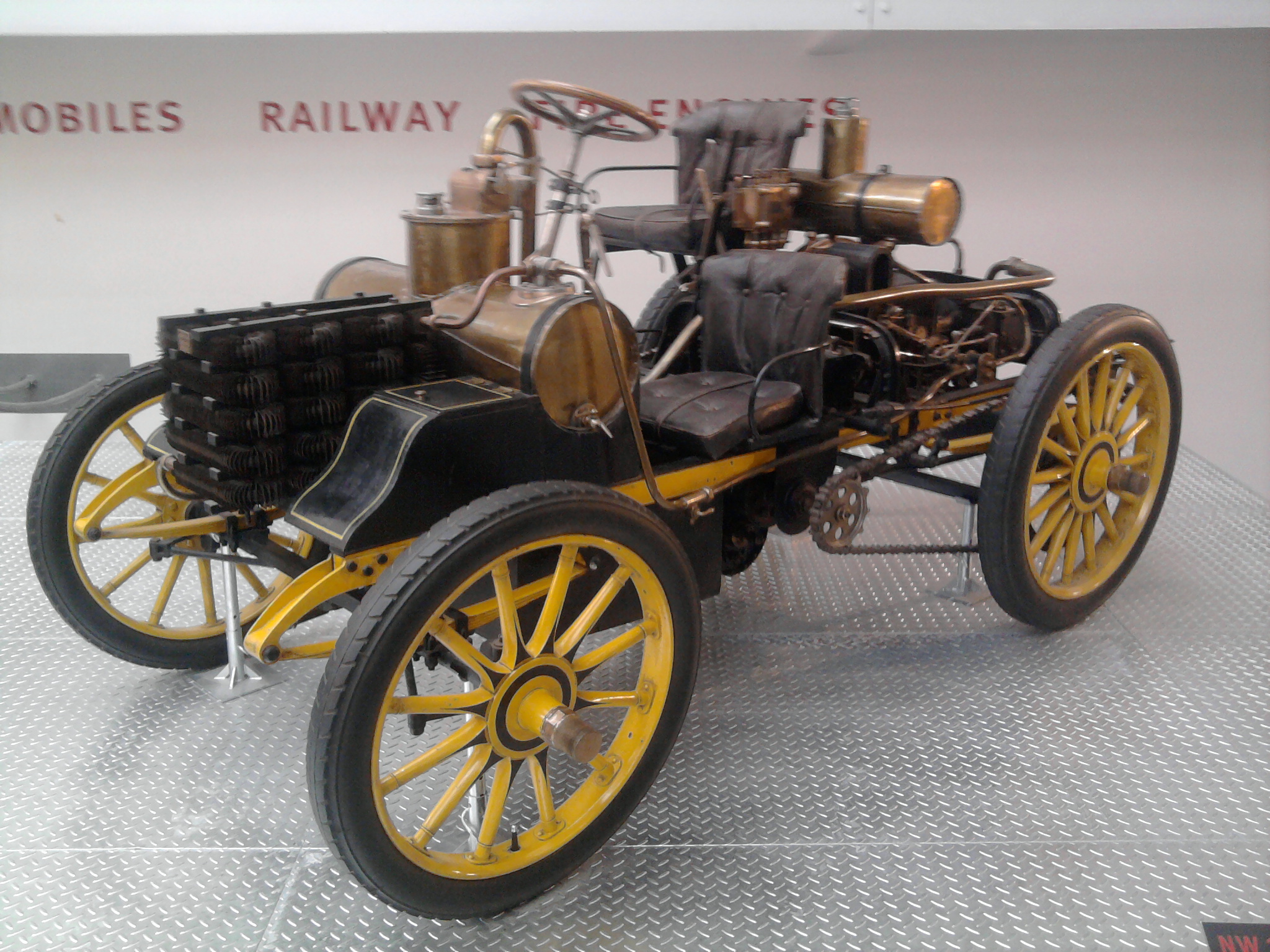 NW Rennzweier - veteran racing car manufactured by Nesselsdorfer Wagenbau-Fabriks-Gesellschaft A.G. (today Tatra, a.s.) in 1900 in Kopřivnice (German: Nesselsdorf), Moravia.